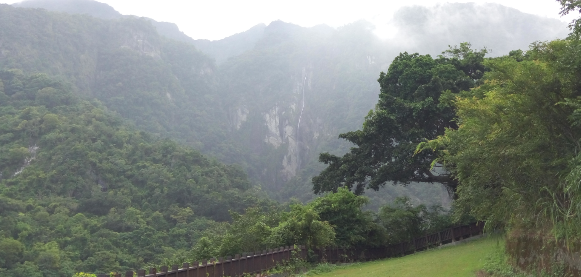 Taiwan Taitung County Xingang Waterfall